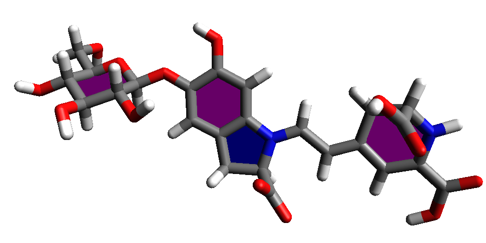 Betanin molecular model 3D